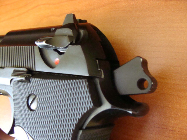 Cocked hammer on a M9A1.